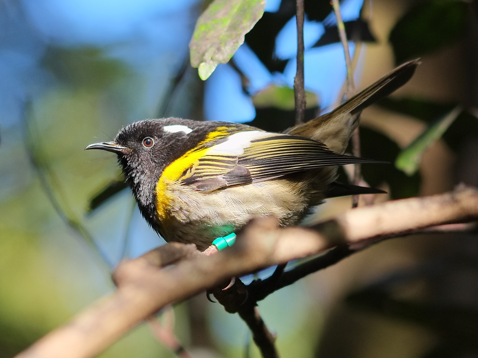 Male hihi (stitchbird) perched on a twig in sunlight